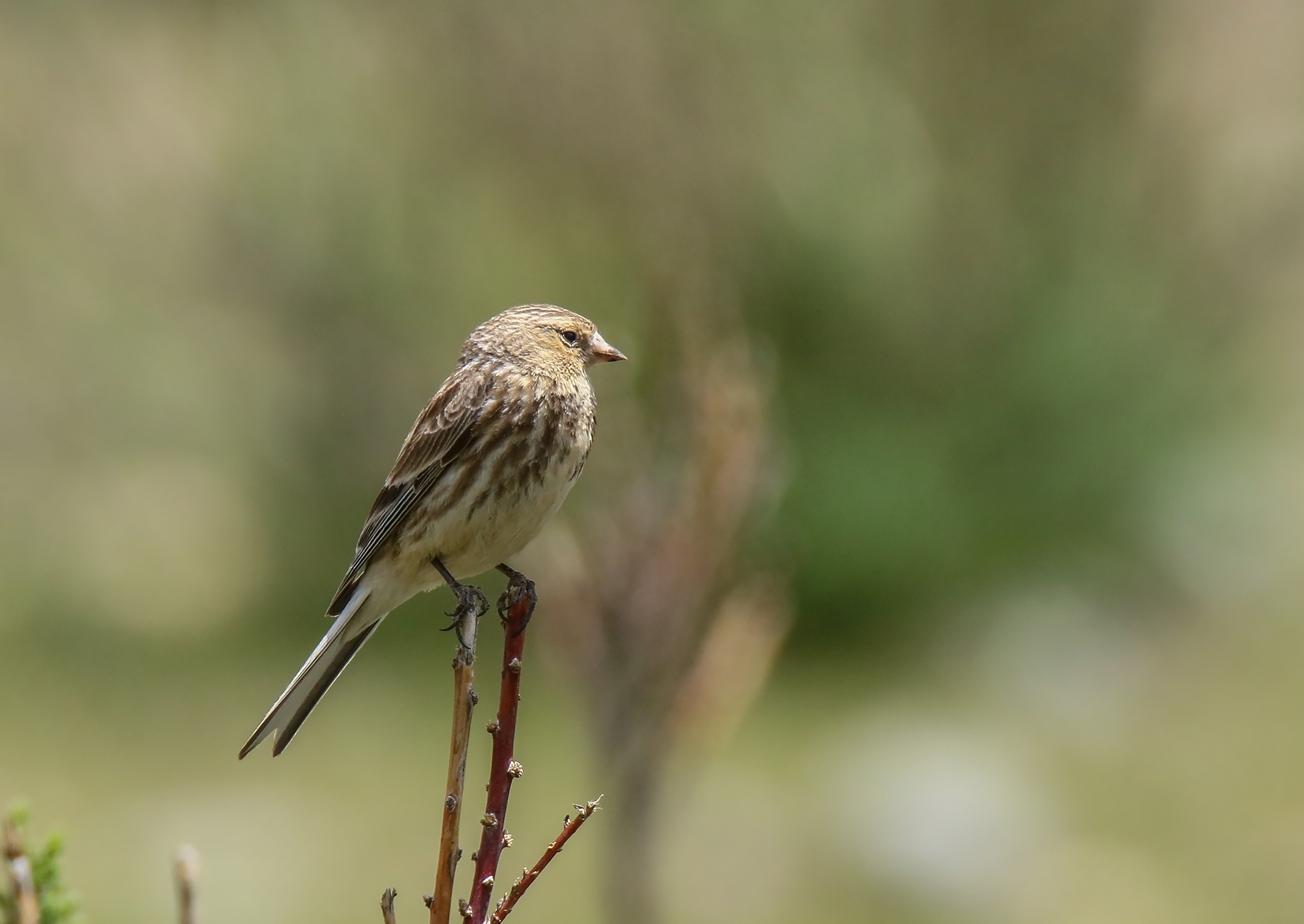 Twite (Carduelis flavirostris) captured at Langar, Ghizer, Gilgit-Baltistan, Pakistan with Canon EOS 7D Mark II